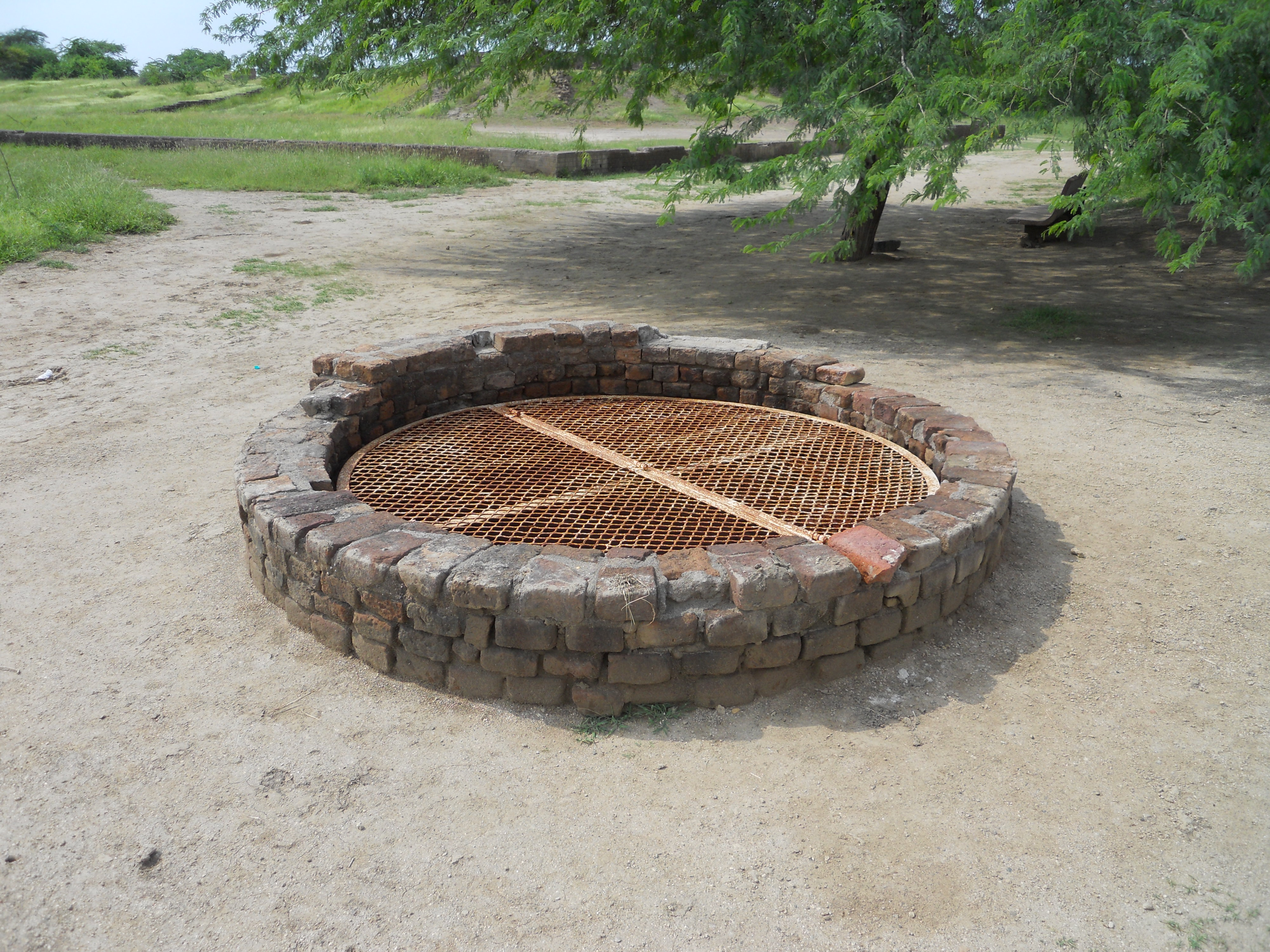 Ancient site at Lothal